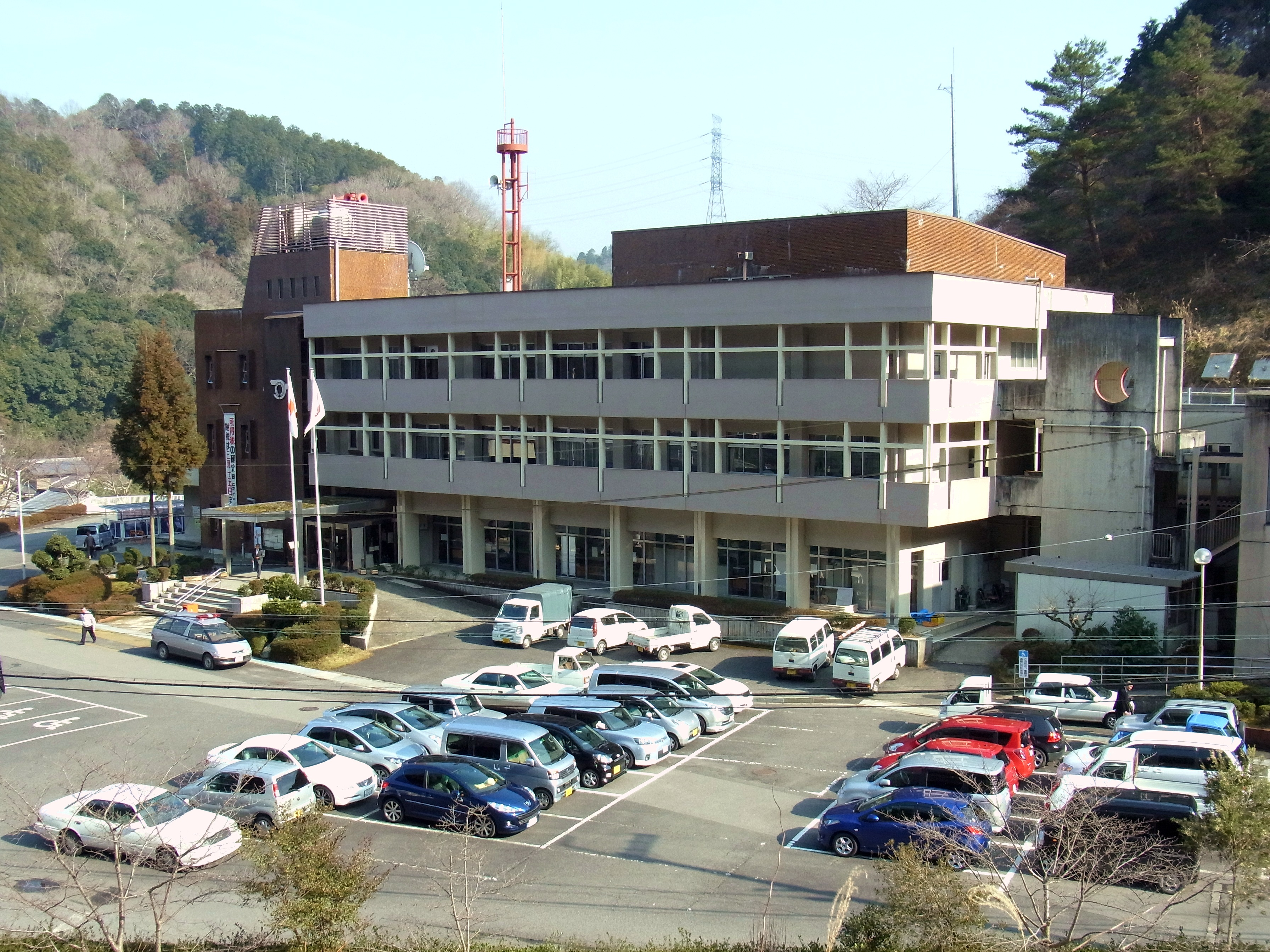 下市町役場 Shimoichi-chō town office 2012.2.24